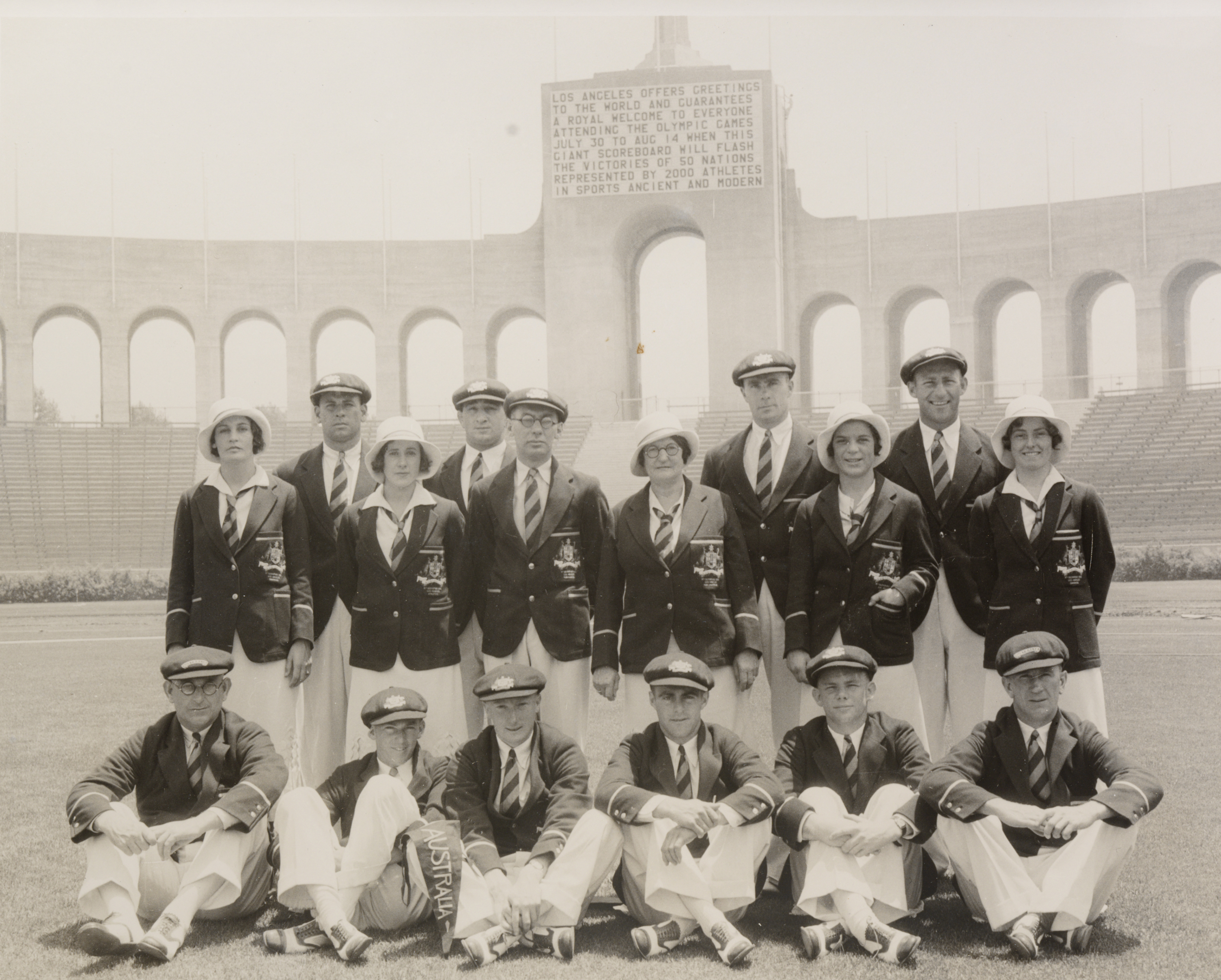 (presumably) (standing, from left to right): Claire Dennis, Boy Charlton, Eileen Wearne, Edward Scarf, N.N., Mrs. Baker, George Golding, Bonnie Mealing, Henry Pearce, Frances Bult (sitting, from left to right): James Quinn, Alex Hillhouse, Bill Barwick, Edgar "Dunc" Gray, Noel Ryan, N.N. The 13-strong Australian team returned from the Los Angeles Games with five medals: three gold, one silver and a bronze. The three gold, won by cyclist Edgar "Dunc" Gray, rower Henry "Bobby" Pearce and teenage swimmer Clare Dennis, matched the record total from Paris in 1924. The silver medal was won by swimmer Philomena "Bonnie" Mealing in the women's 100m backstroke, while Eddie Scarf's bronze in freestyle wrestling was the first Australian medal in the sport. The Sydney 2000 Olympic velodrome was named in Dunc Gray's honour. Clare Dennis was the youngest woman to win a gold medal in Los Angeles, aged 16. The Australian flag at the Opening Ceremony was carried by swimming legend Andrew "Boy" Charlton. However, unlike the previous two Games of 1924 and 1928, Charlton did not win a medal in Los Angeles, his performance affected by illness. Australia competed in five sports in Los Angeles: aquatics (swimming), athletics, cycling, rowing and wrestling. Of these, athletics was the only sport in which no medal was won. The team was small as amateur athletes earnt little money and the travelling expenses from Australia were always high because of distance. Reference: Australian Olympic Committee website Format: Photograph Notes: Find more detailed information about this photograph: .au/item/itemDetailPaged.aspx?itemID=430692 Search for more great images in the State Library's collections: .au/search/SimpleSearch.aspx From the collection of the State Library of New South Wales